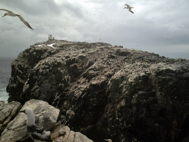 Sulasgeir lighthouse